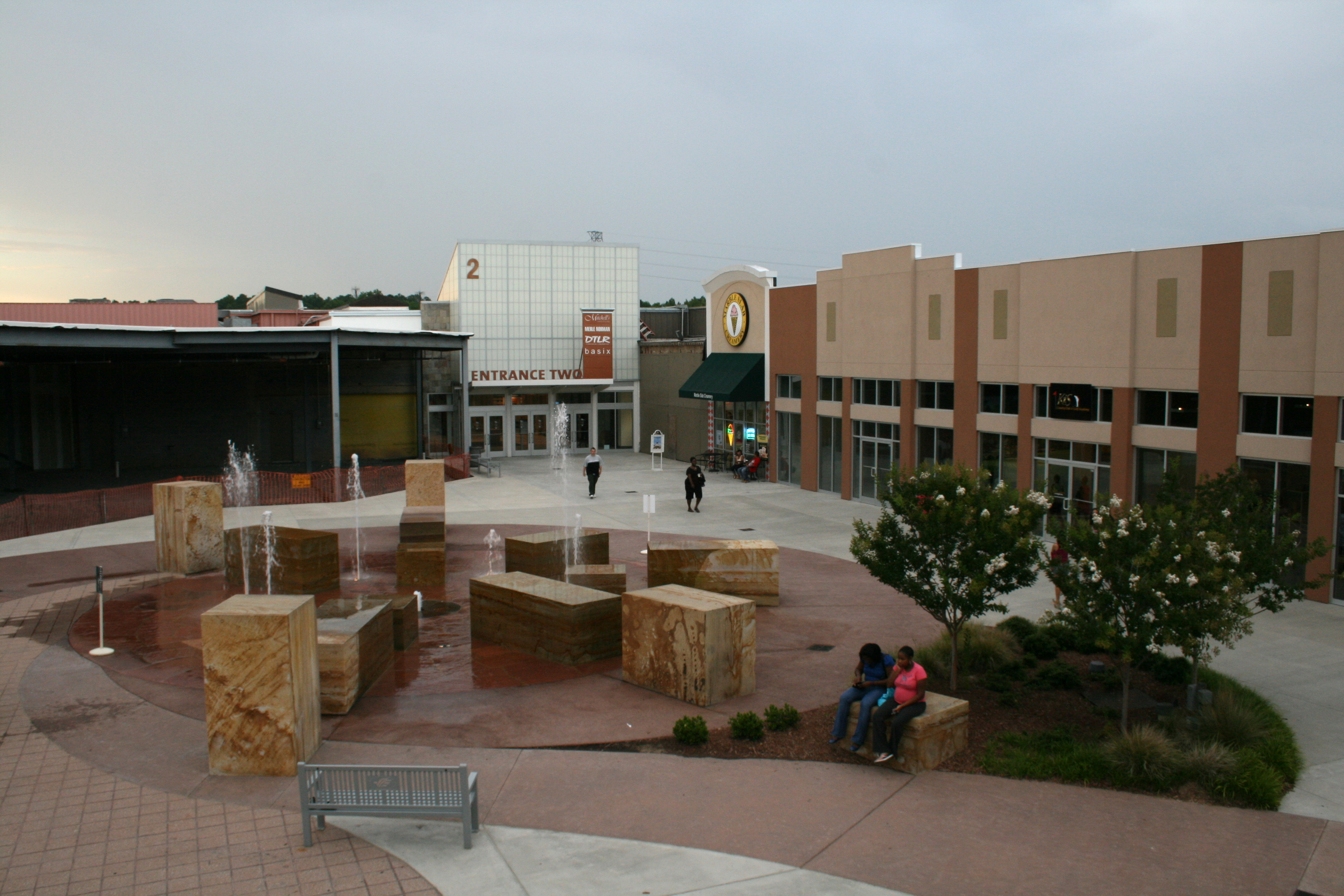 Entrance 2 to Northgate Mall in the evening in Durham, North Carolina. The variable fountain jets are currently in their low state.